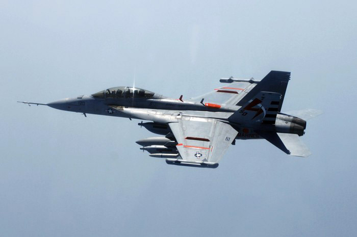 Patuxent River, Md. - A new era in Naval Aviation begins with the first EA-18G Growler aircraft. The EA-18 Growler is being developed to replace the fleet's current carrier-based EA-6B Prowler. The next-generation electronic attack aircraft for the U.S. Navy combines the combat-proven F/A-18 Super Hornet with a state-of-the-art electronic warfare avionics suite. The EA-18G will feature an airborne electronic attack suite based on Northrop Grumman's Improved Capability III system, a radically new jamming and information warfare system. The EA-18G is expected to enter initial operational capability in 2009.